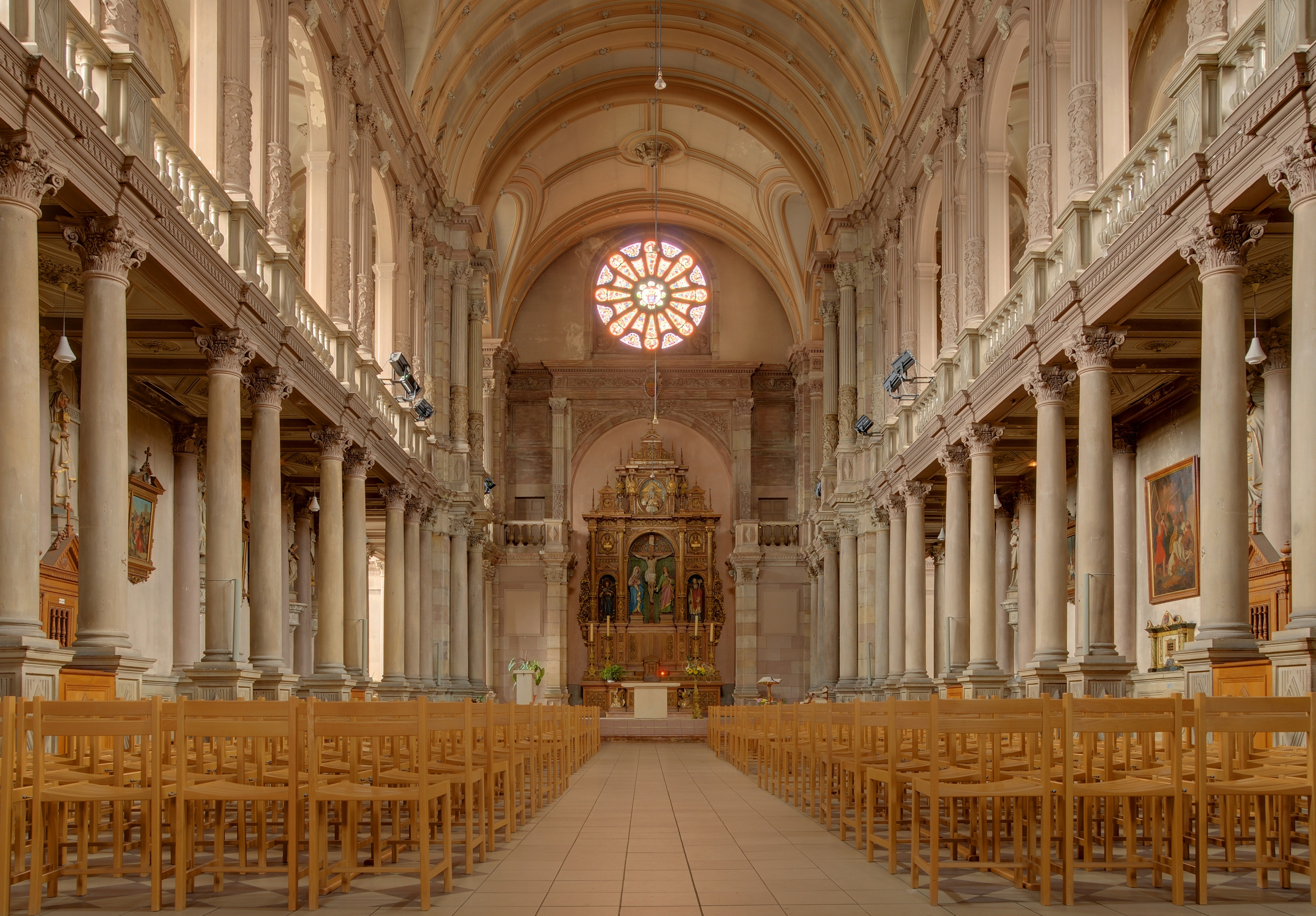 HDR of the interior of Église Saint-Maimbœuf in Montbéliard, France.